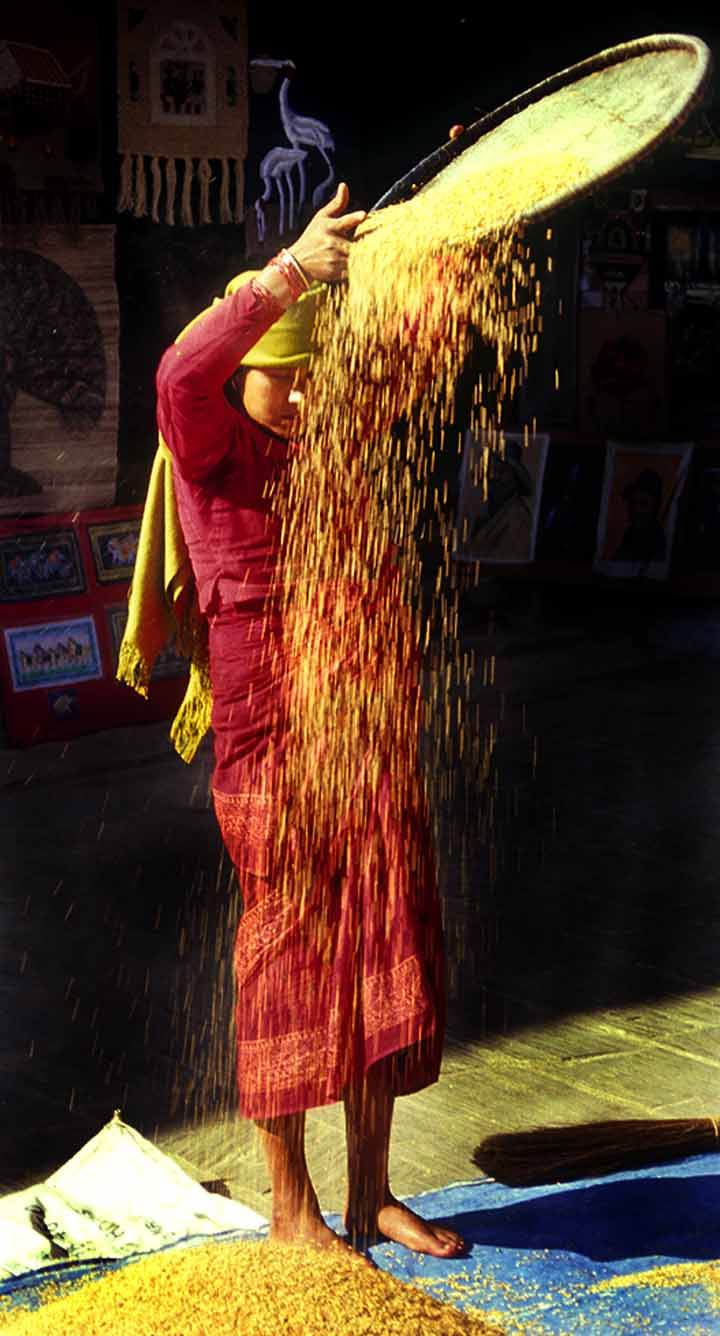 Winnowing rice in Nepal.Nepal